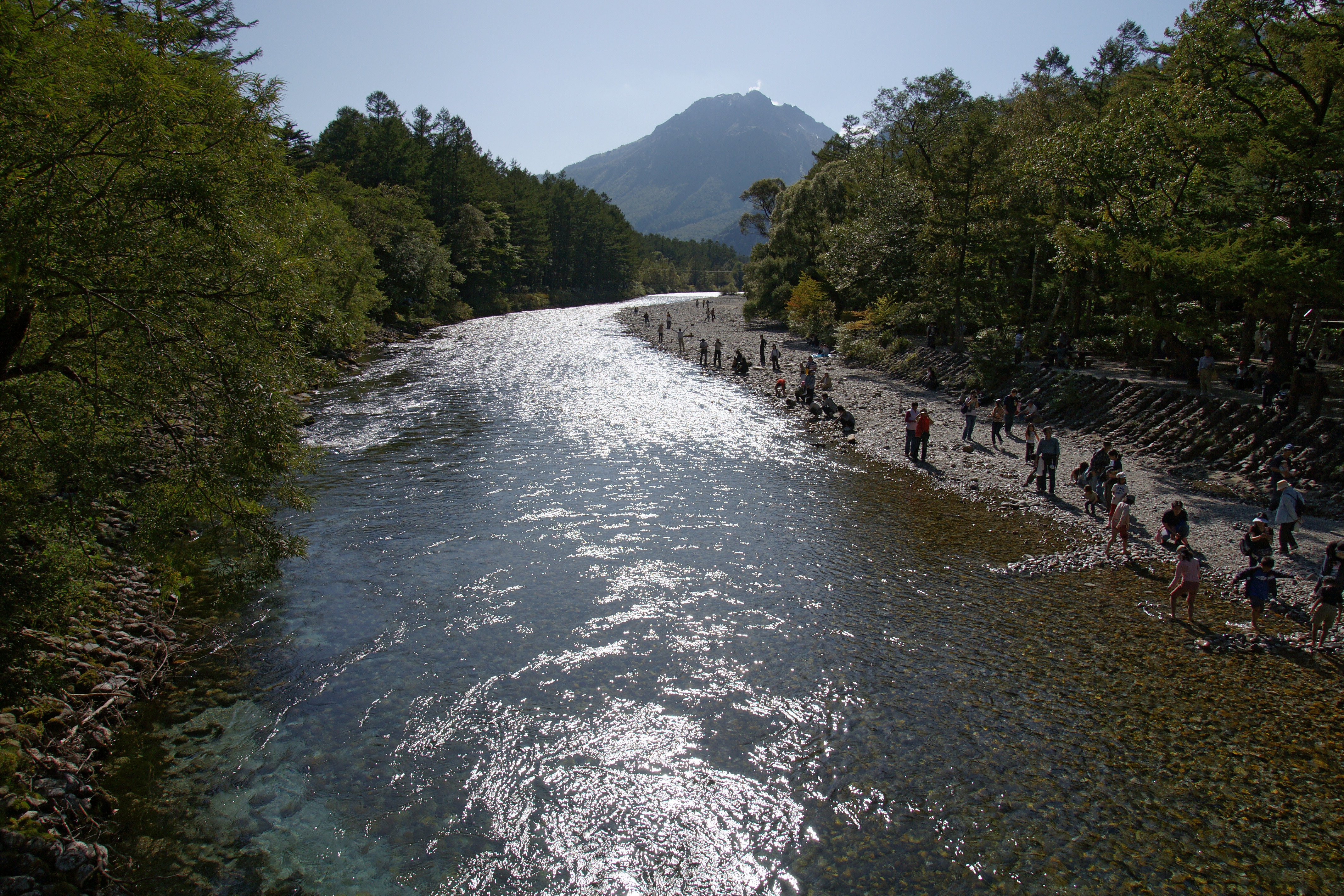 Kamikochi in Matsumoto, Nagano prefecture, Japan